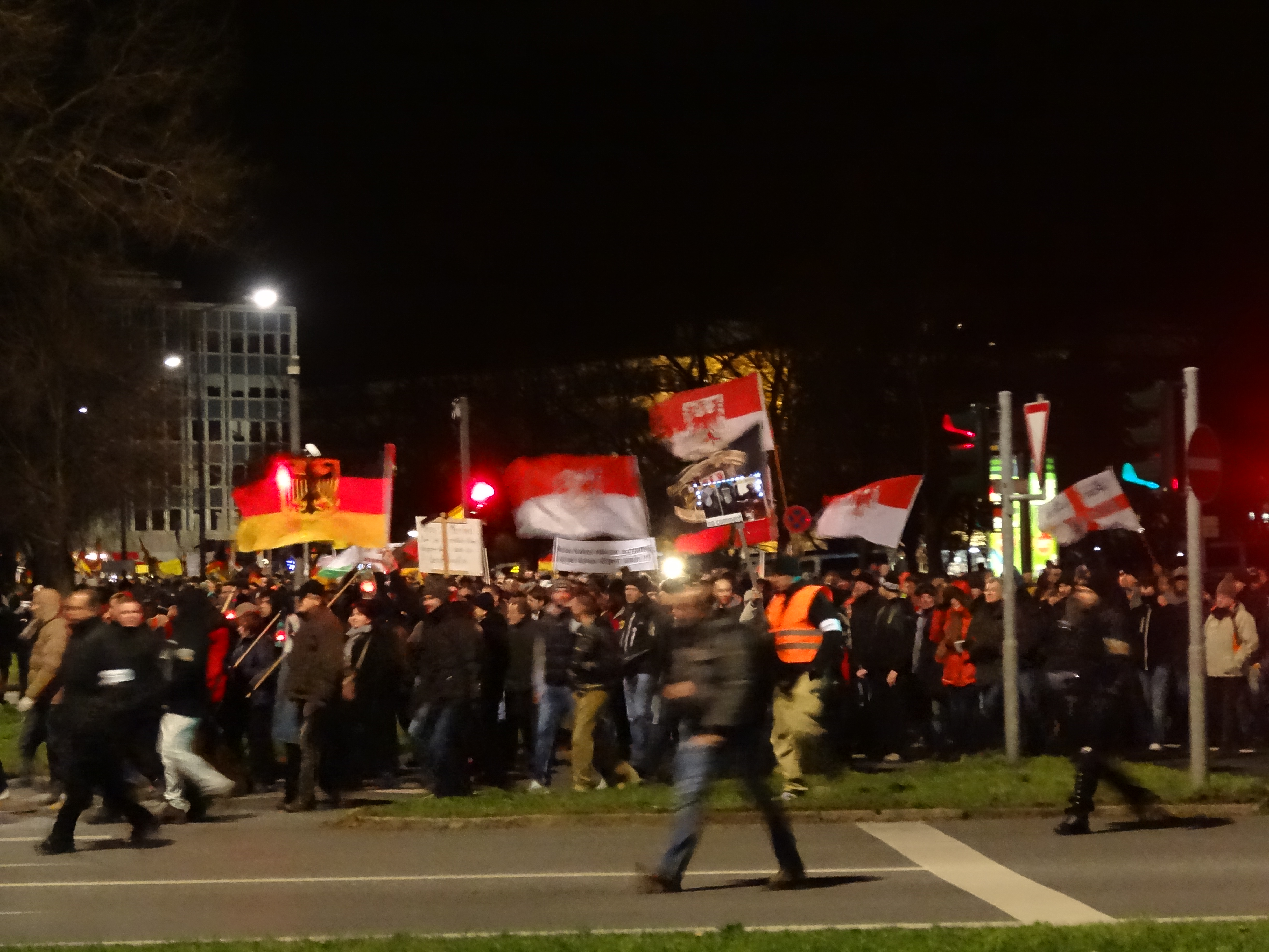 A PEGIDA demonstration in Dresden from Georgplatz - Karstadt - Altmarktgallerie - Wilsdruffer Straße - Georgplatz Dresden. 40,000 participants came to demonstrate for peaceful refugees without terrorist background. Terrorists should leave the country. 250 leftwing activists came to disturb at Karstadt Dresden and the police came.